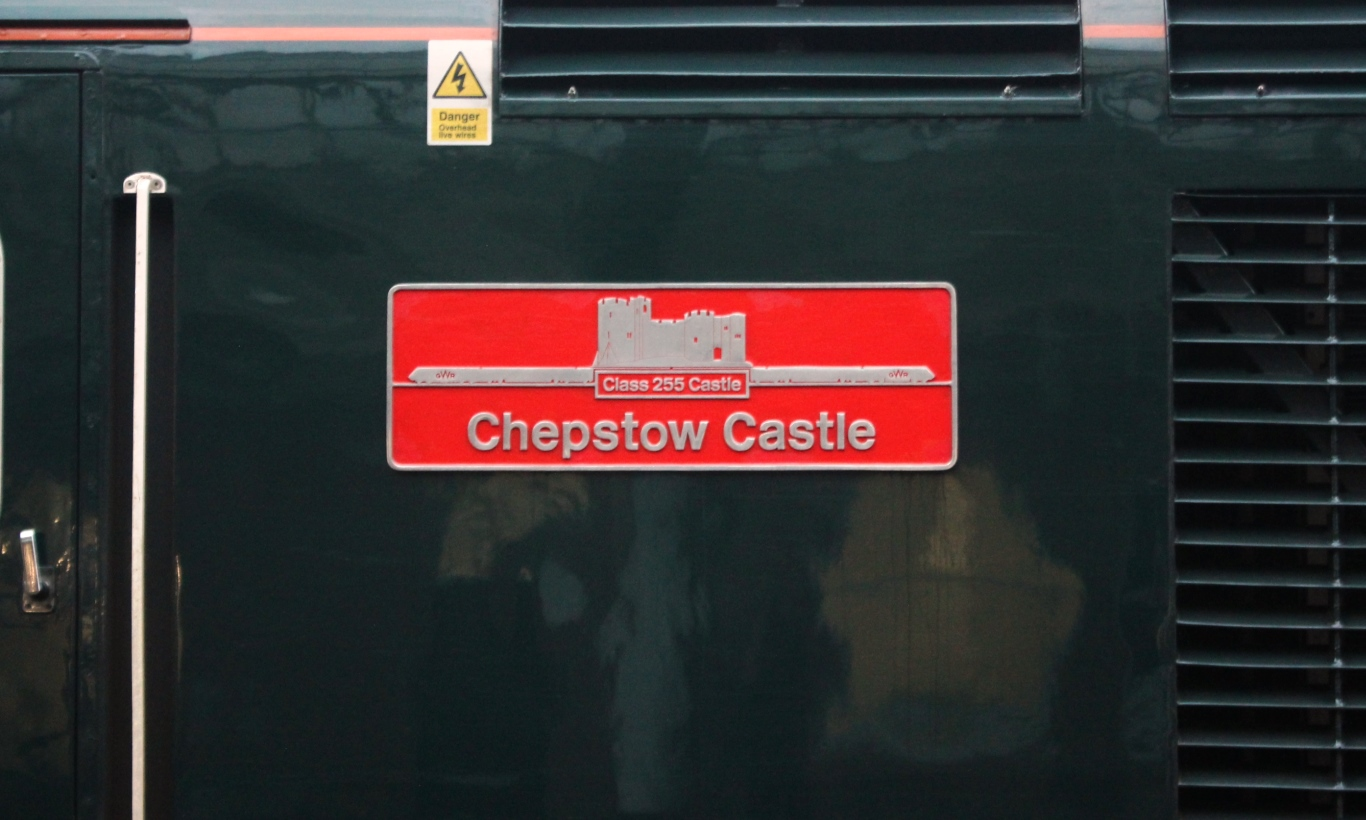 Great Western Railway has renamed most of its remaining class 43 power cars after castles in south Wales and south west England, 43170 is Chepstow Castle. GWR trains do not serve Chepstow but some may pass through when diverted due to a closure of the Severn Tunnel.